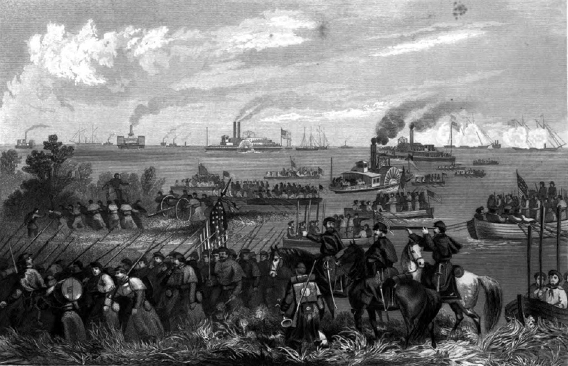 Landing troops of gen. Burnside expedition at Roanoke